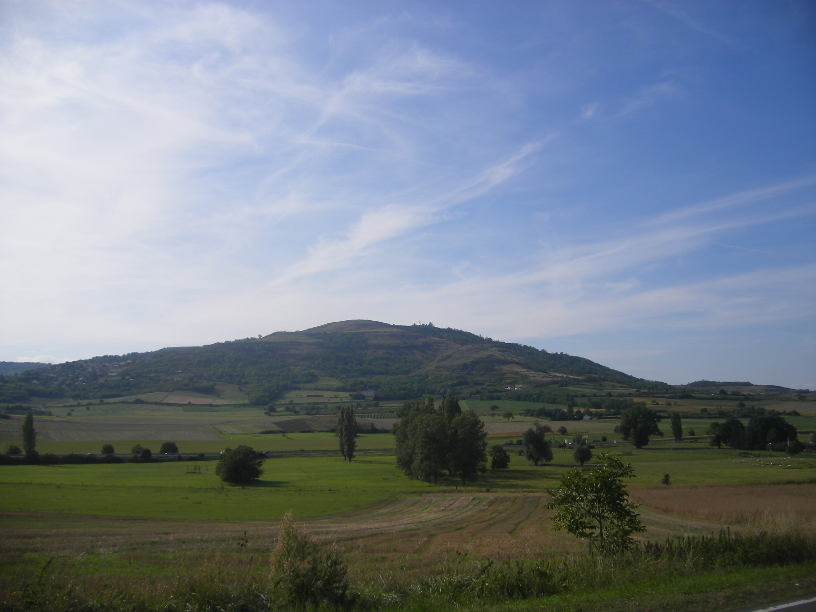 Plateau de Gergovie as seen from the D978 route